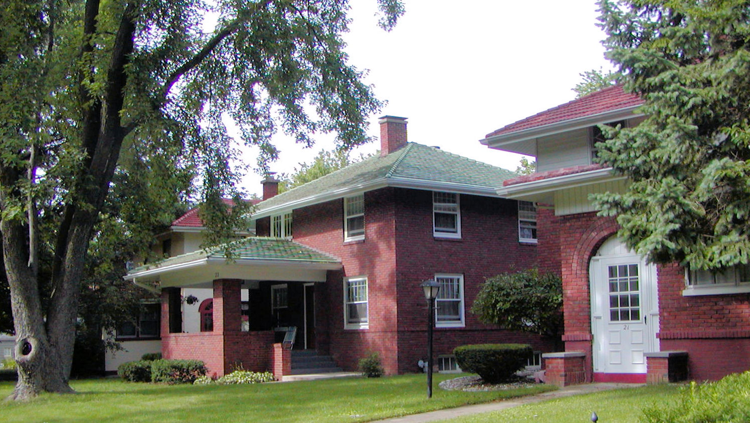 Homes within Cedar Crest Addition Historic District